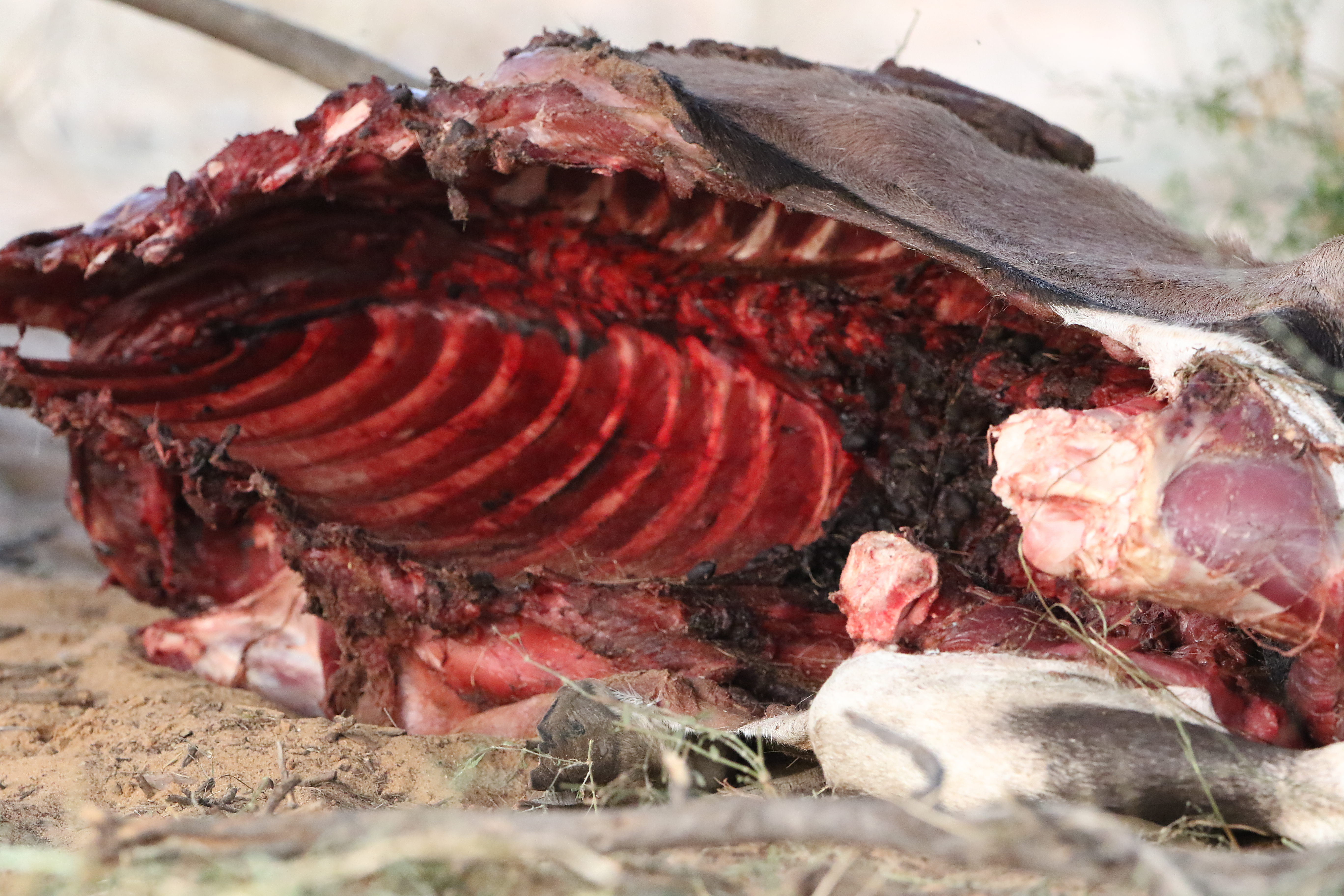 Gemsbok killed by African lion, Panthera leo at Kgalagadi Transfrontier Park, Northern Cape, South Africa